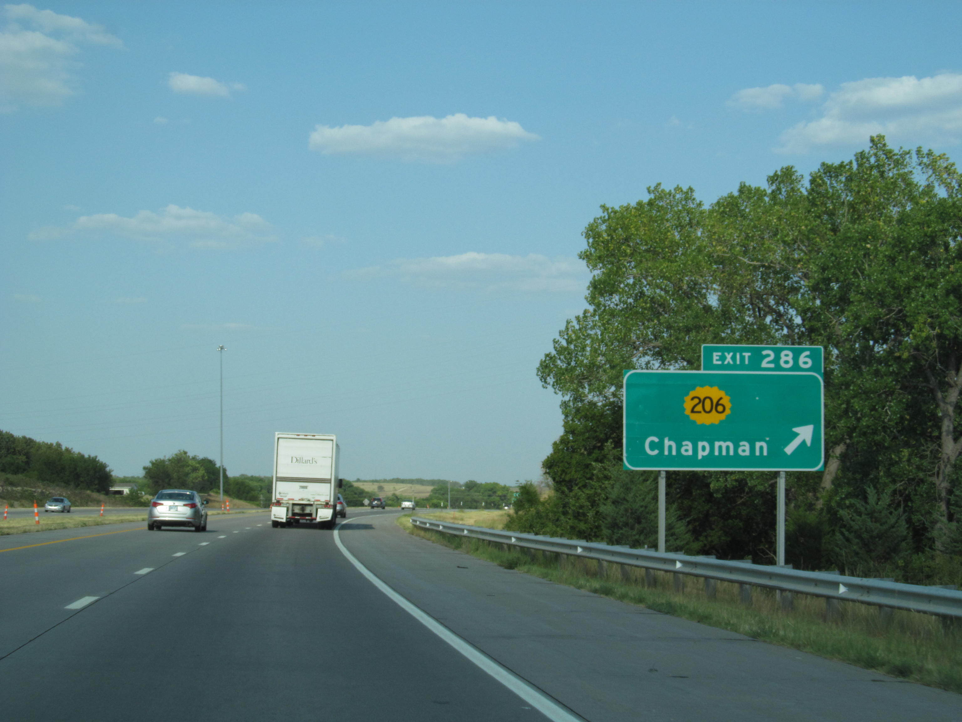 Interstate 70 at exit for former K-206 (Kansas highway) taken July of 2012. K-206 was decommissioned in 2015